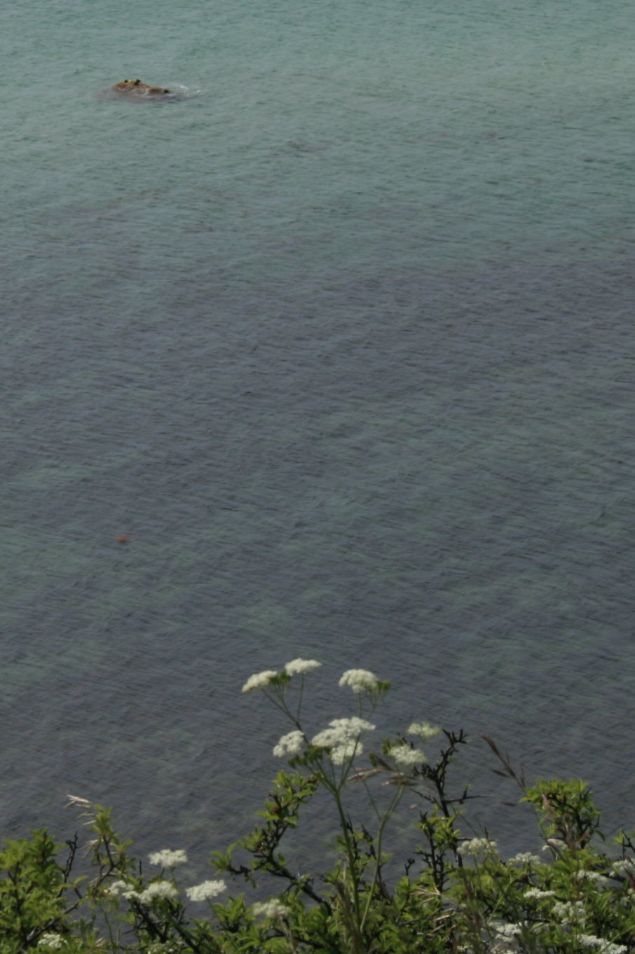 A large stone with the name "Blak" in the Kattegat below the point "Jernhatten".